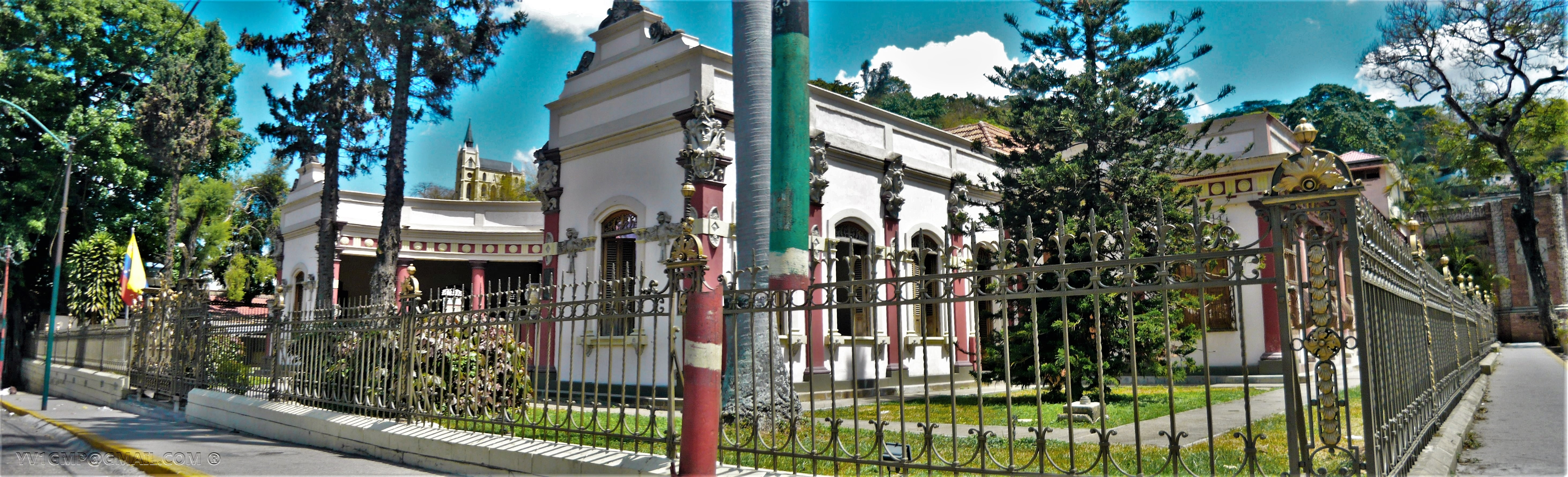 Villa Santa Inés, an architectural work declared a National Historic Monument in 1970 and currently the headquarters of the Cultural Heritage Institute of Venezuela. Built at the end of the 19th century during the presidential period of General Joaquín Crespo (1884-1886)